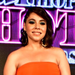 Maanvi Gagroo (cropped) at the trailer launch of the web series "Four More Shots Please"